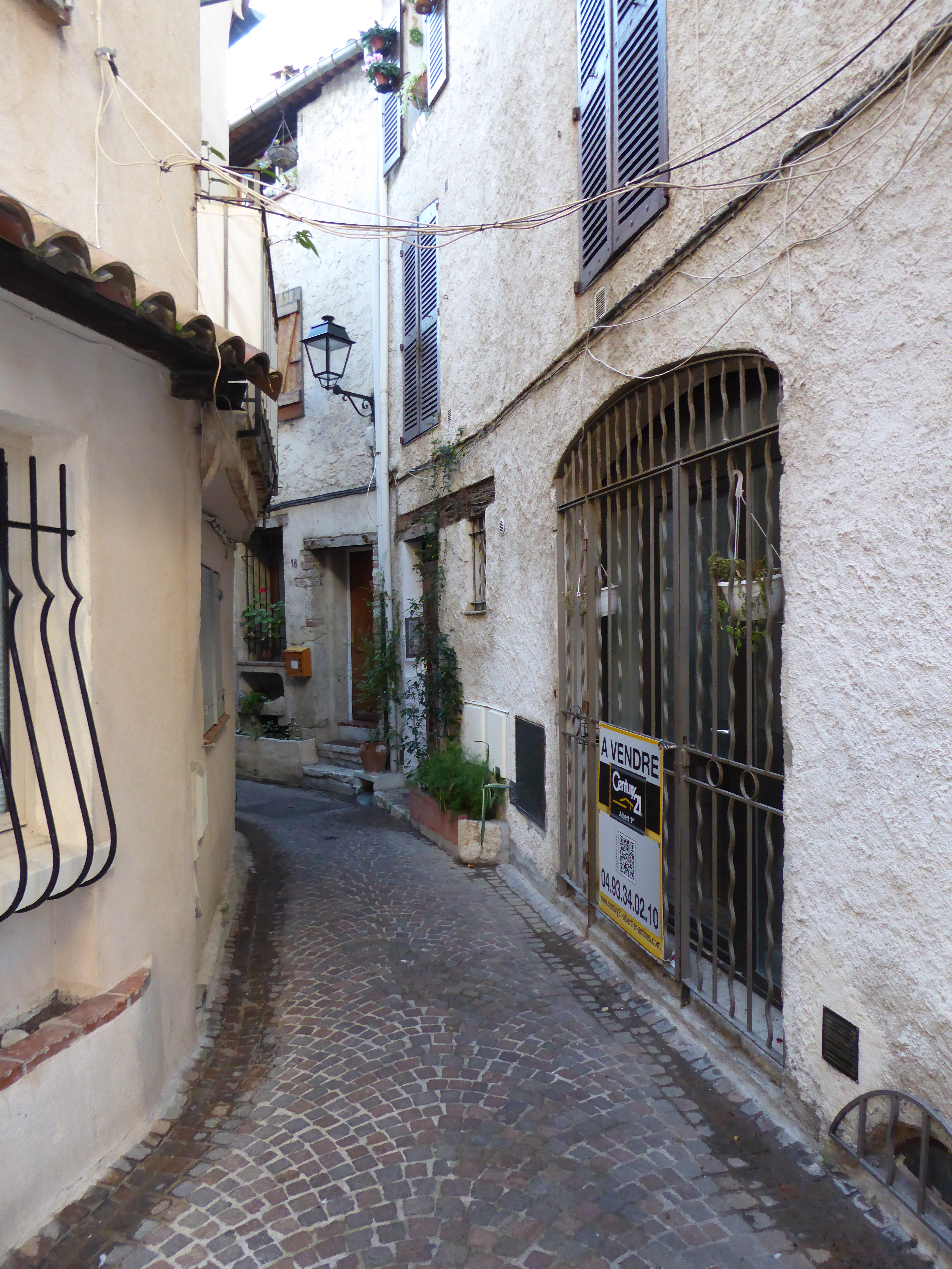 Rue des Paveurs, Antibes